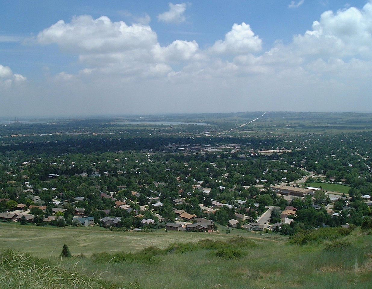 View of Boulder, Colorado from NCAR mesa, on the southwest side of the city.